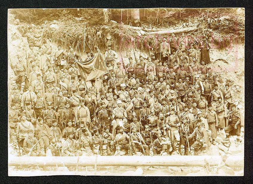 Cheta of SMAC member Hristo Tanushev from Krushevo, 1903